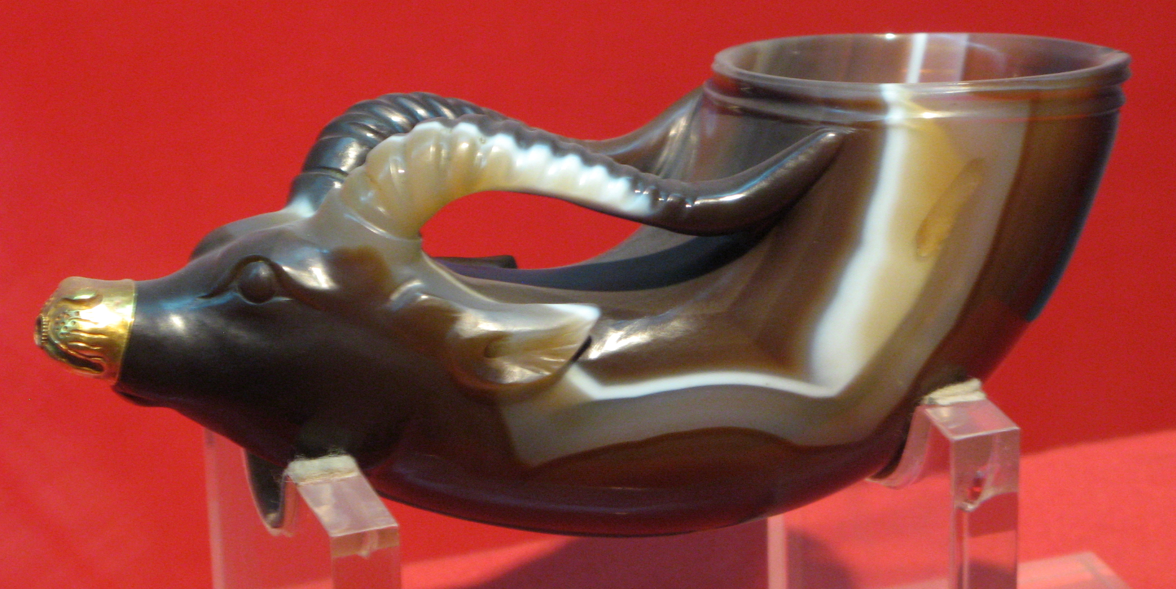 Rhyton. Tang Dynasty. Shaanxi History Museum, Xi'an This is a 6"-long onyx drinking horn, with a gold cap that stops the antelope's mouth. This rhyton, an import from Western Asia, is "perhaps a work of the sixth or seventh century from a Sasanian or Sogdian workshop" (Thorp and Vinograd, Chinese Art & Culture, p. 222 ).